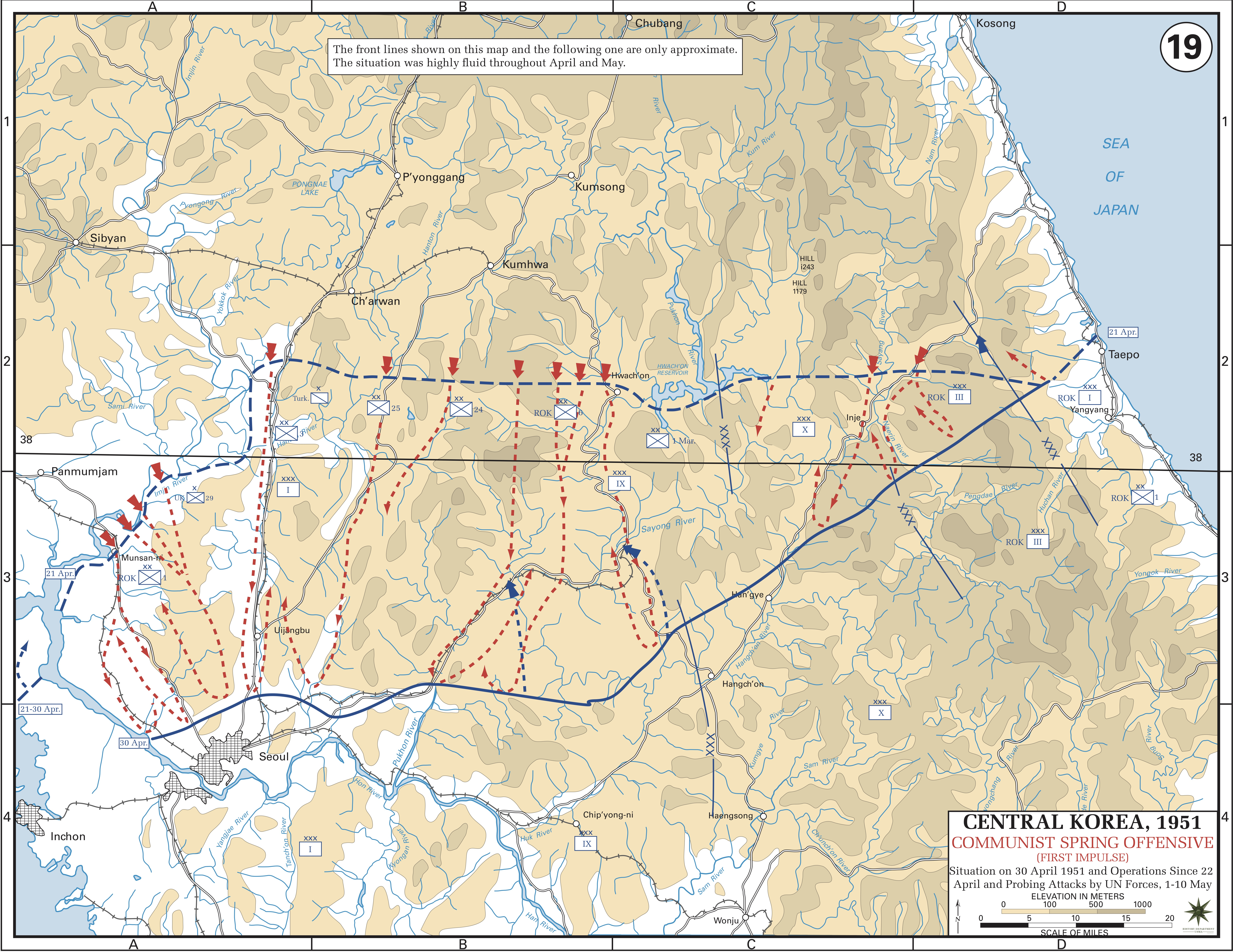 Central Korea during the first impulse of the Communist Spring Offensive 1951 (situation 30 April 1951 and operations since 22 April 1951)